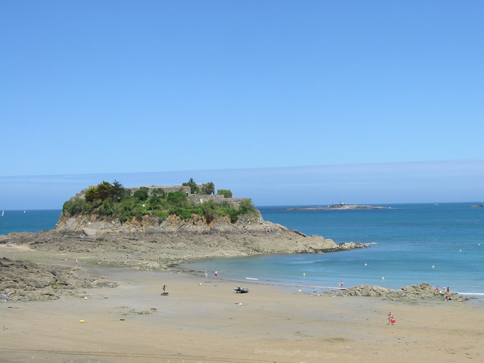 Saint-Quay-Portrieux island of la Comtesse (France, Bretagne); people can walk inside during low tide. Ruins of old castle. Backside Harbour island .